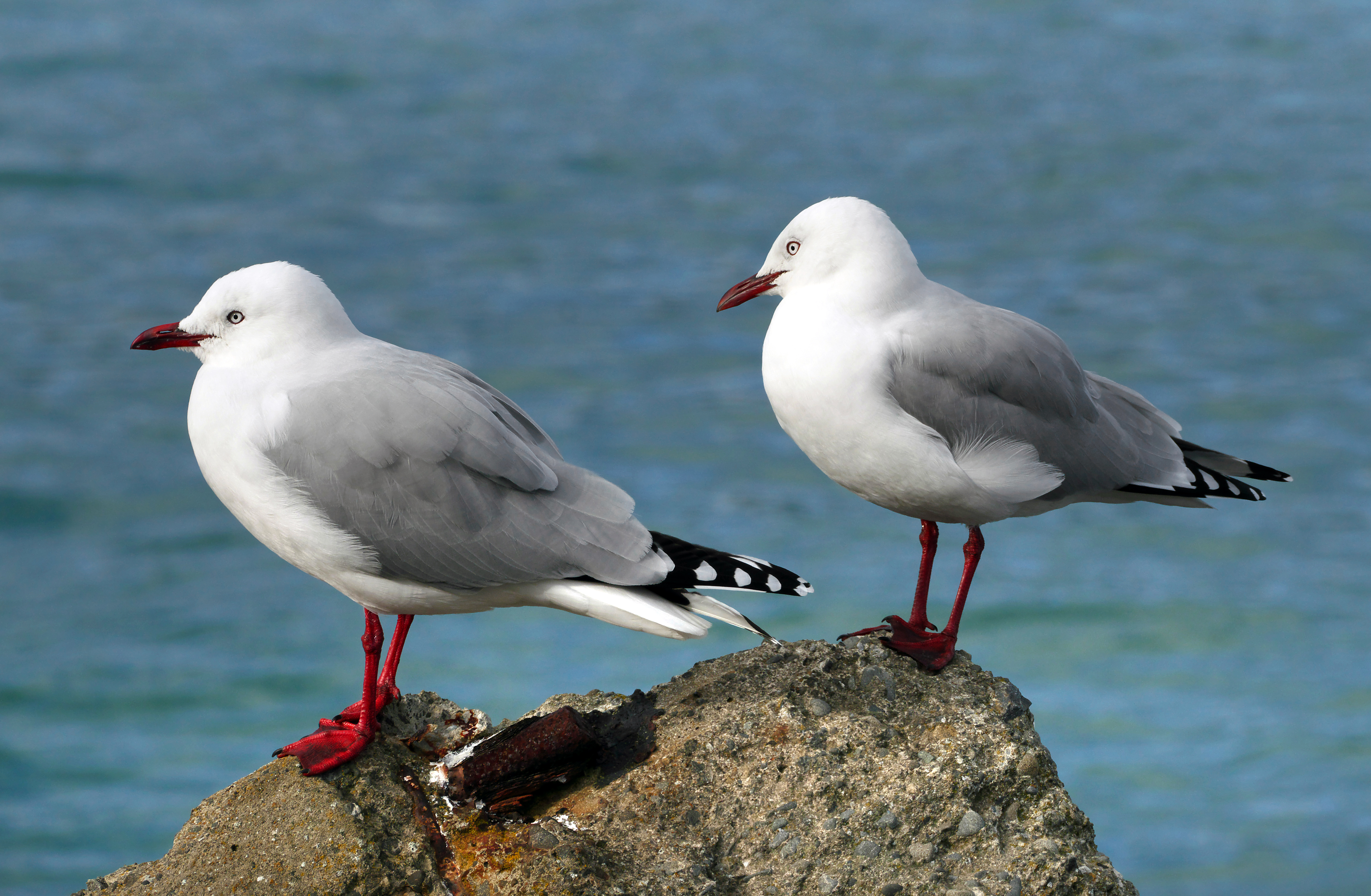 Red-billed gulls are found in most coastal locations throughout New Zealand. They are also commonly found in towns, scavenging on human refuse and offal from fish and meat processing works. They are seldom found inland. On mainland New Zealand, breeding occurs in dense colonies, mainly restricted to the eastern coasts of the North and South Islands on stacks, cliffs, river mouths and sandy and rocky shores. On outlying islands they breed on the Chatham, Campbell, Snares and Auckland Islands. Here, their nests are concealed and located singly or in small groups.